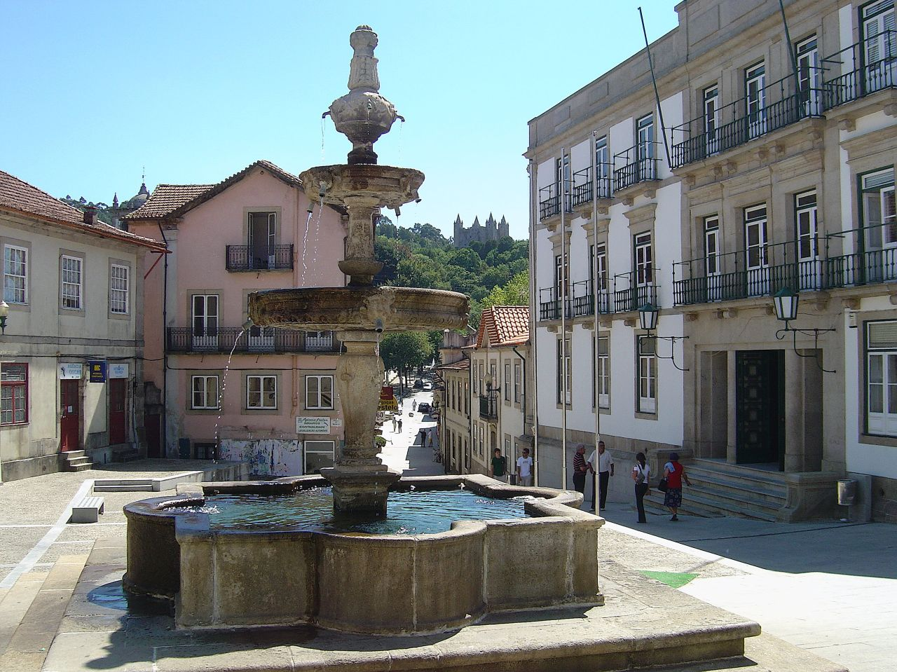 See where this picture was taken. [?]